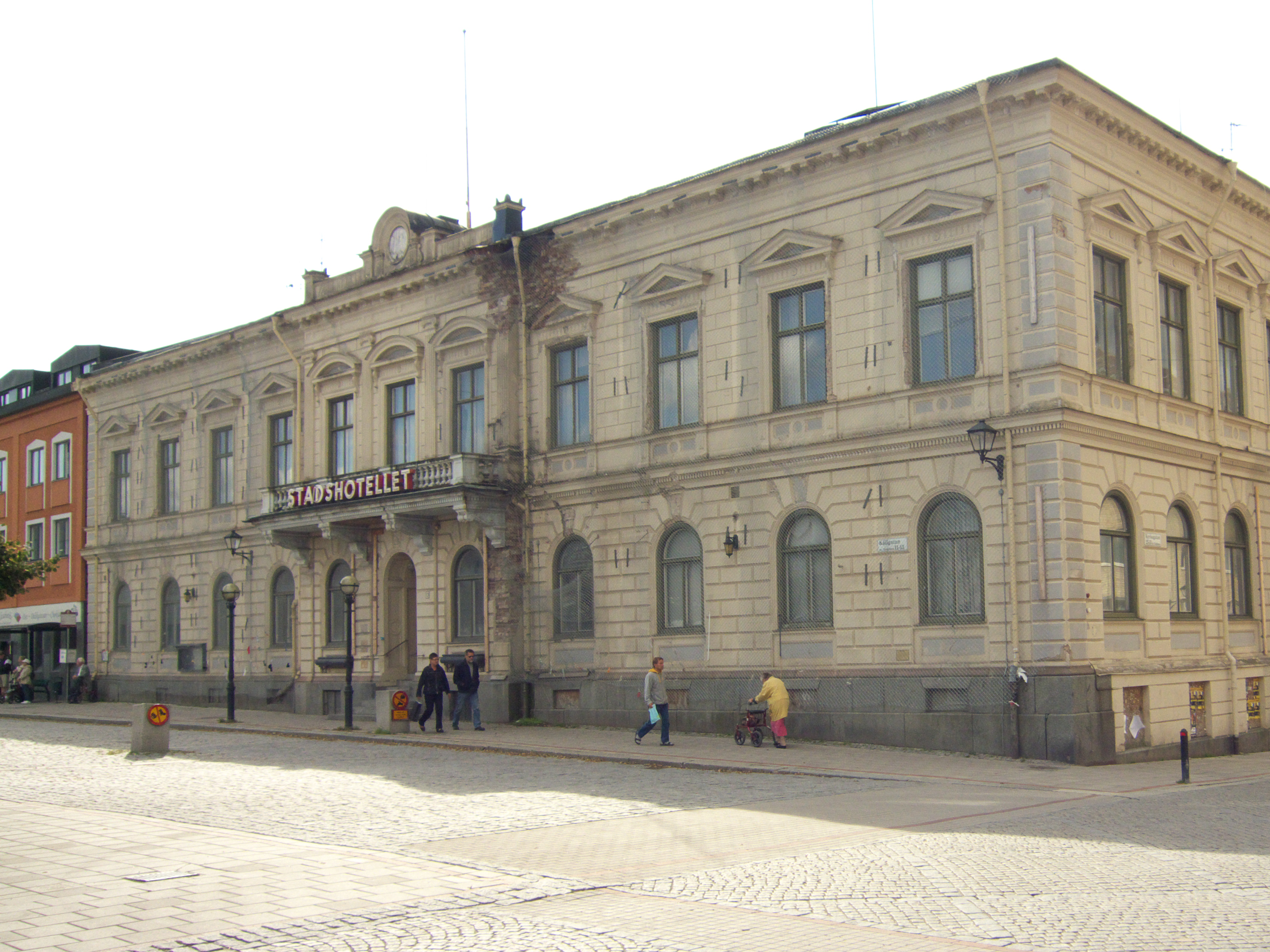 Enköping City Hotel before demolition